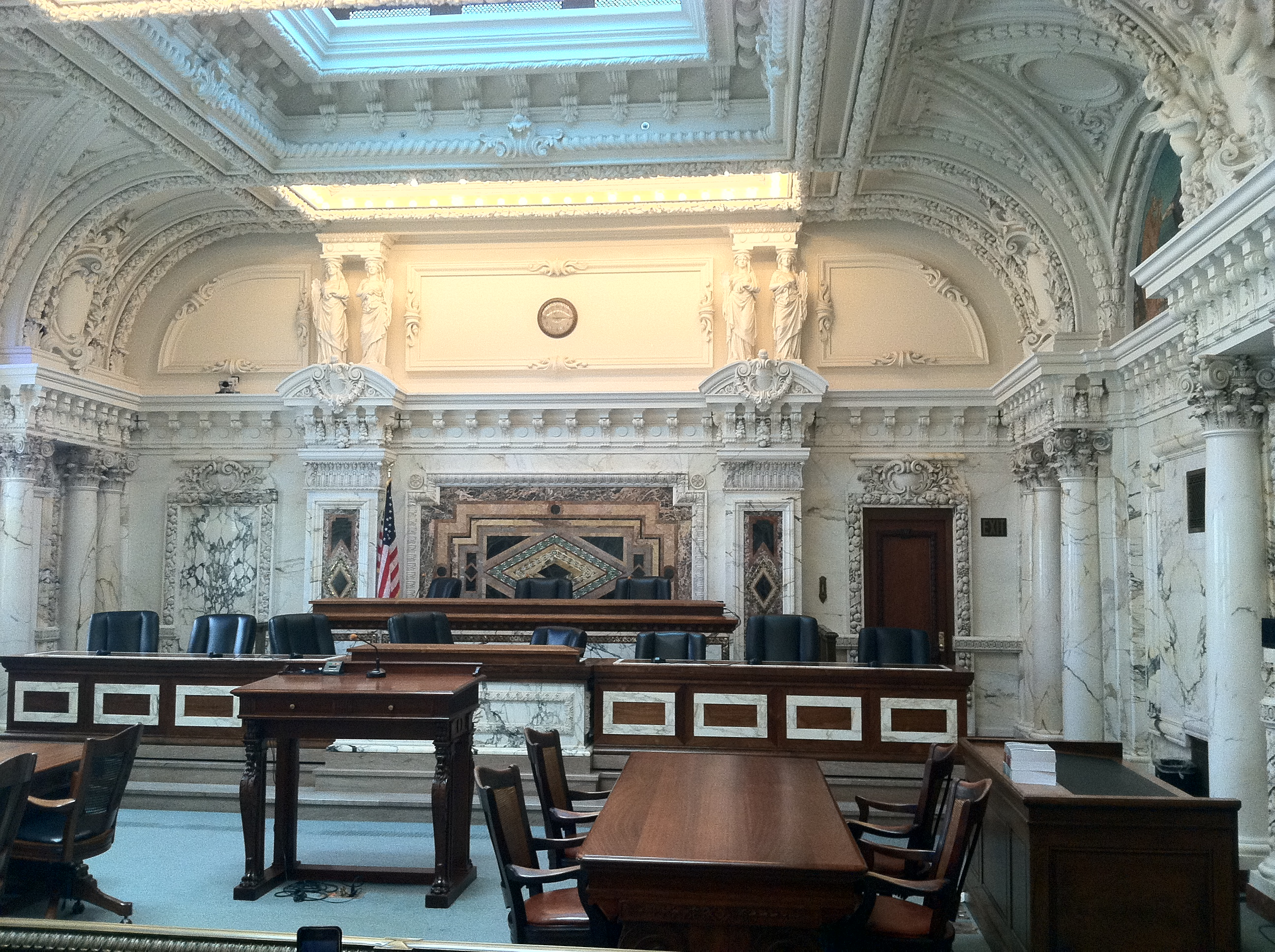 Courtroom 1 in the James R. Browning Courthouse in San Francisco.